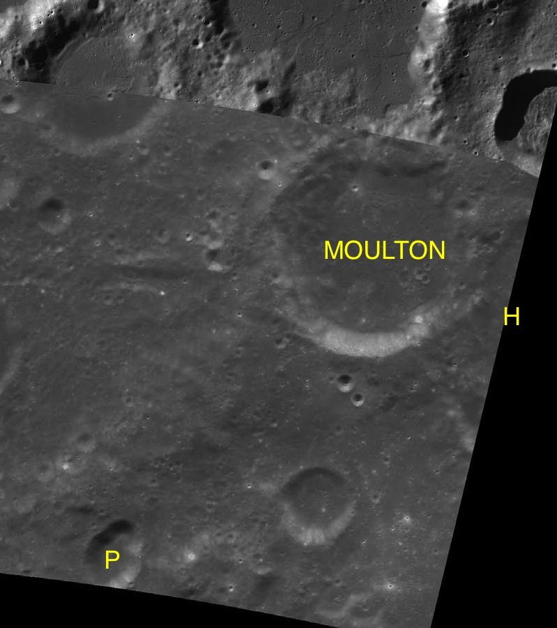 Part of the chart LAC-129 used for the presentation